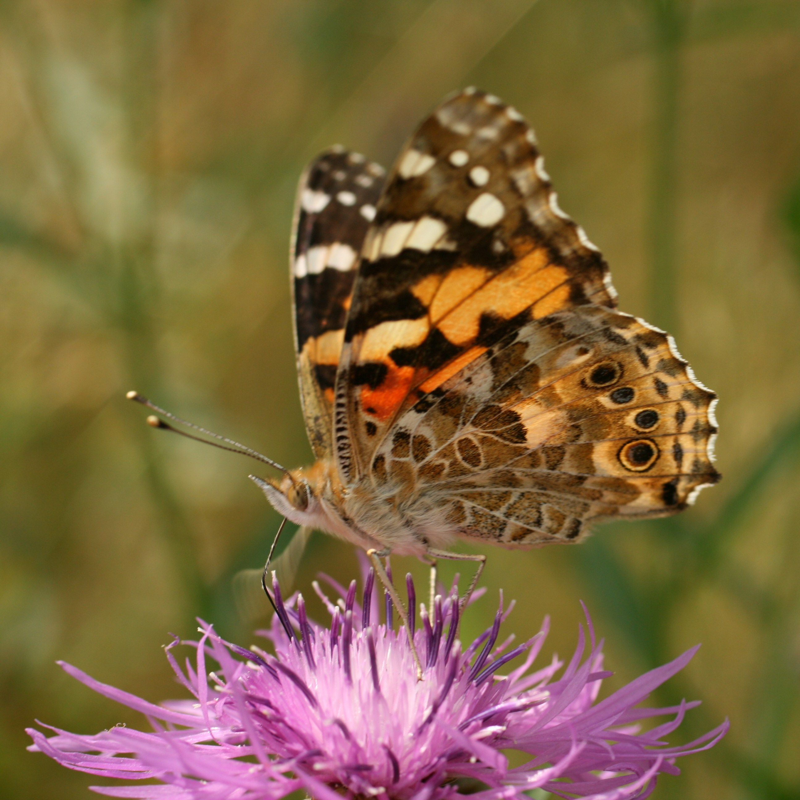 Painted lady (Vanessa cardui). The picture was taken on the island Grinda in the archipelago of Stockholm.